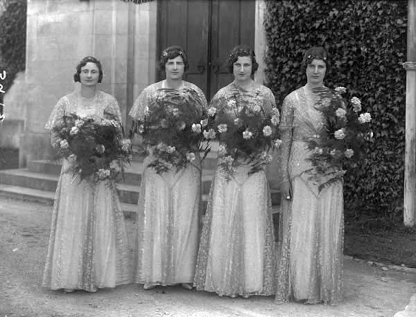 Four bridesmaids with rather large bouquets. The bride may have been Mrs De La Poer, or she was mother of either the bride or groom. Thanks to Niall McAuley, we now know this photo was taken at Gurteen-le-Poer, Clonmel. Date: 2 August 1933 NLI Ref.: P_WP_3978